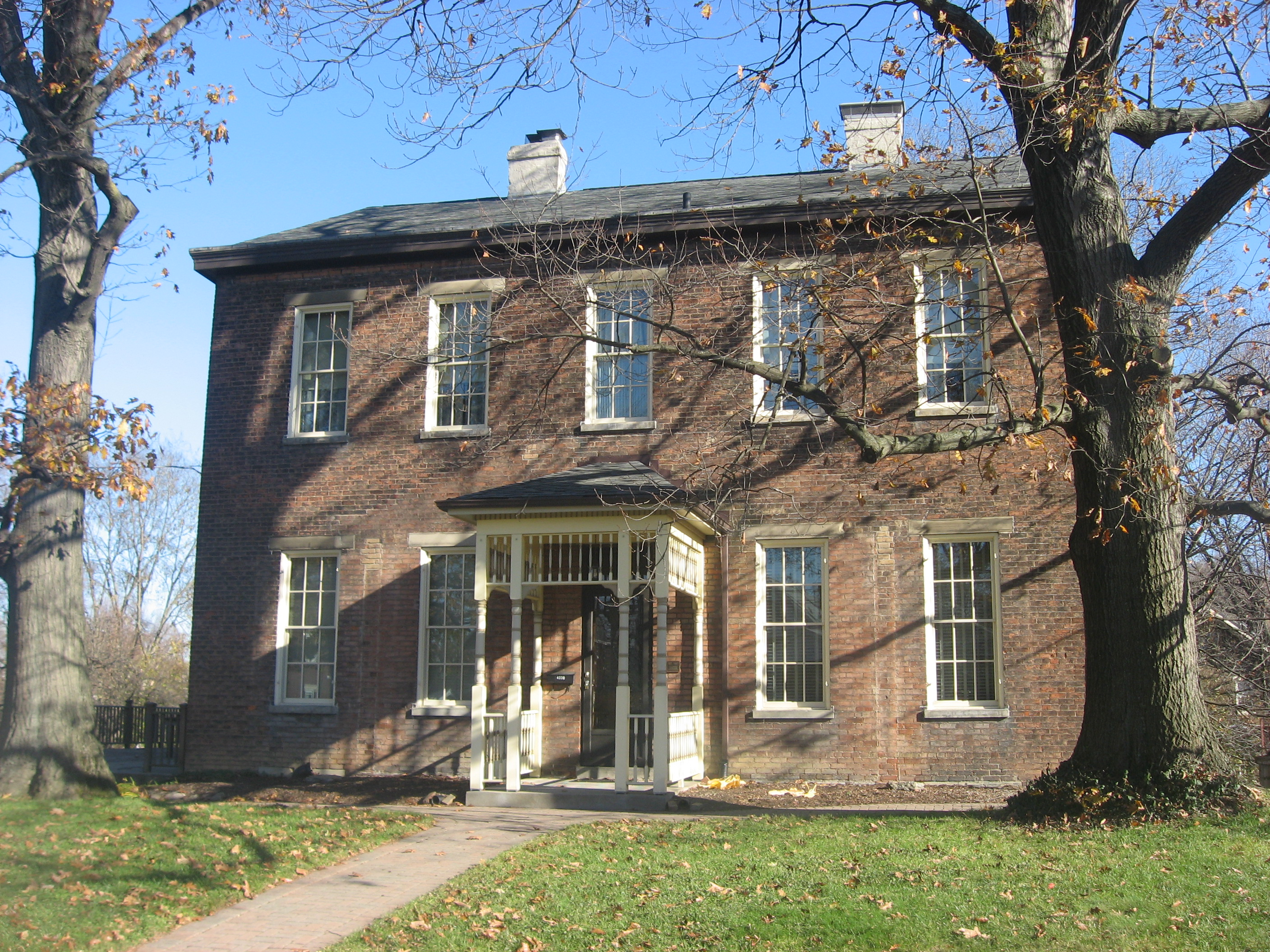 Front of the Nurre-Royston House, located at 4330 Errun Lane in St. Bernard, Ohio, United States. Built in 1859, it is listed on the National Register of Historic Places.